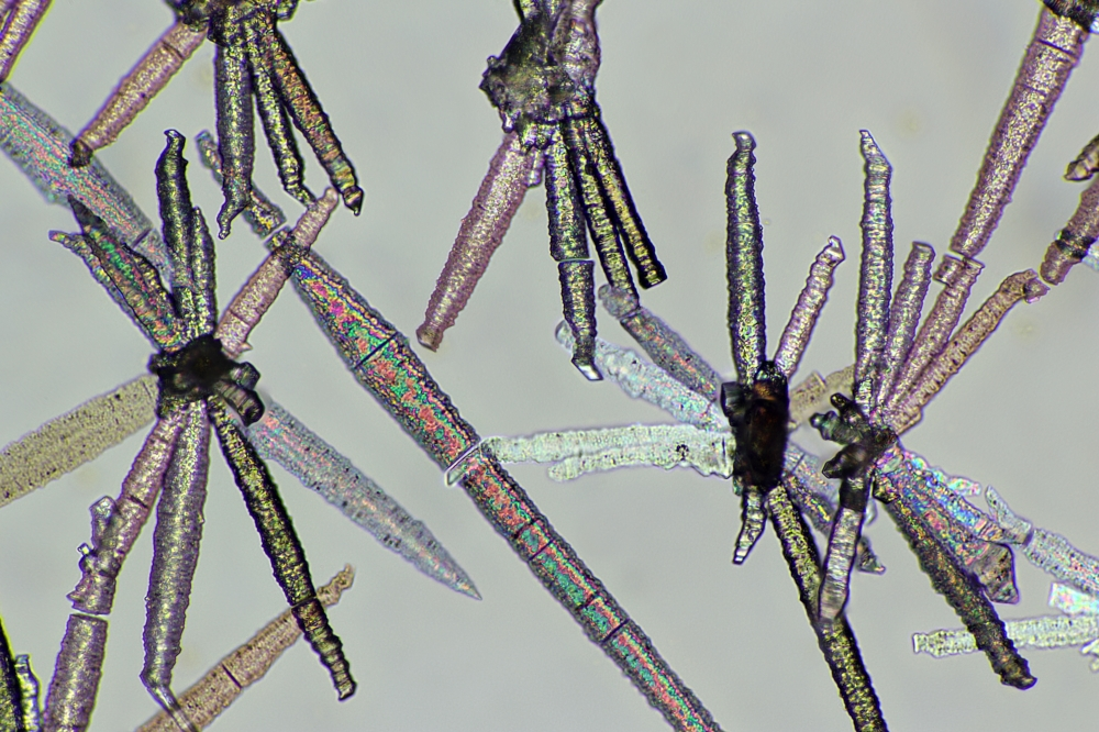 Theobromin, erhalten durch Sublimation, Kristalle im polarisierten Licht